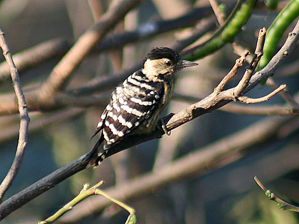 Fulvous-breasted Woodpecker Dendrocopos macei in Kolkata, West Bengal, India.